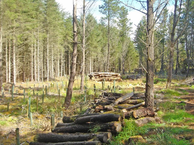 Dunnet Forest Restructuring Dunnet Forest is managed for the community by the Dunnet Forestry Trust. Areas of the original conifer plantation are being progressively cleared and replaced by broadleaves.